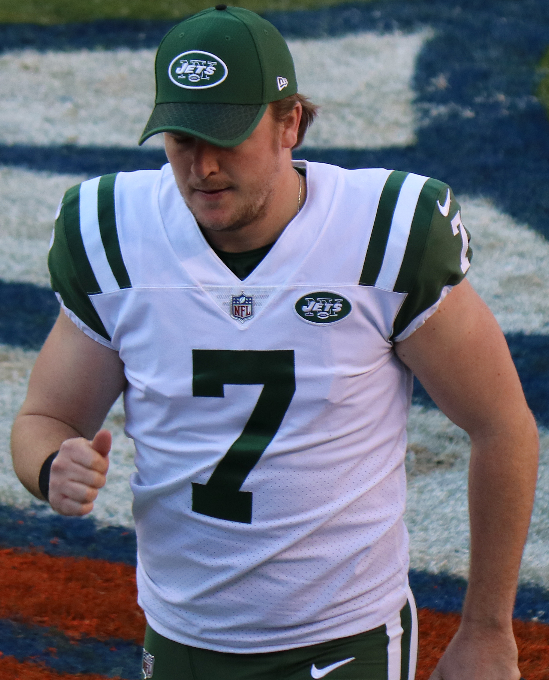 Chandler Catanzaro, a National Football League player.